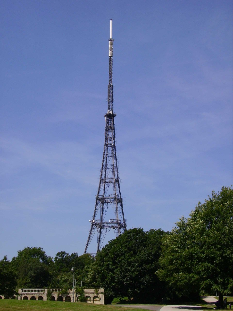 Crystal Palace Transmitting Station Mast